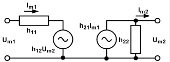 Generalised h-parameter model of an BJT.